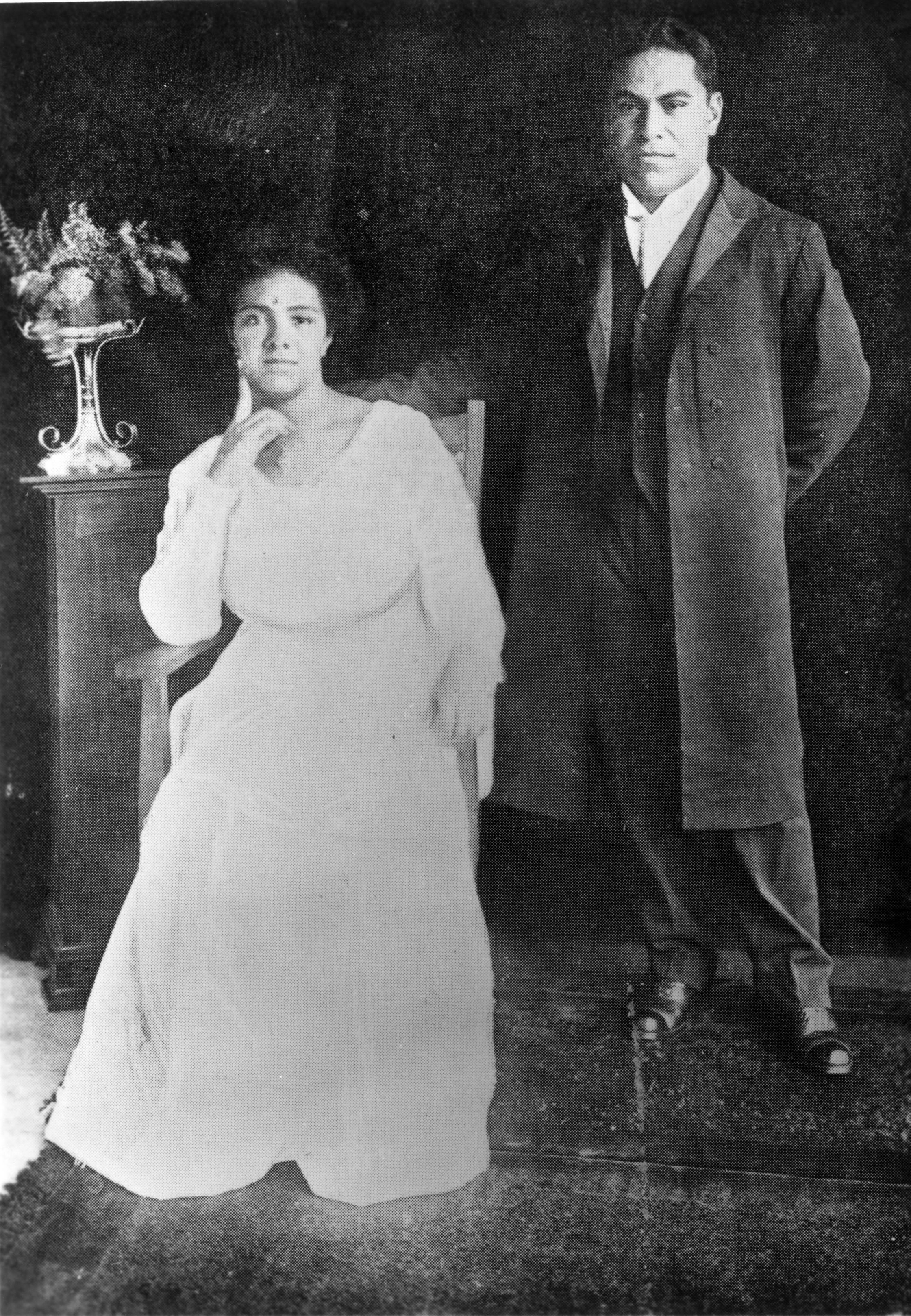 Queen Sālote Tupou III of Tonga, and her consort Prince Viliami Tungī Mailefihi.